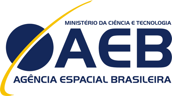 Brazilian Space Agency logo